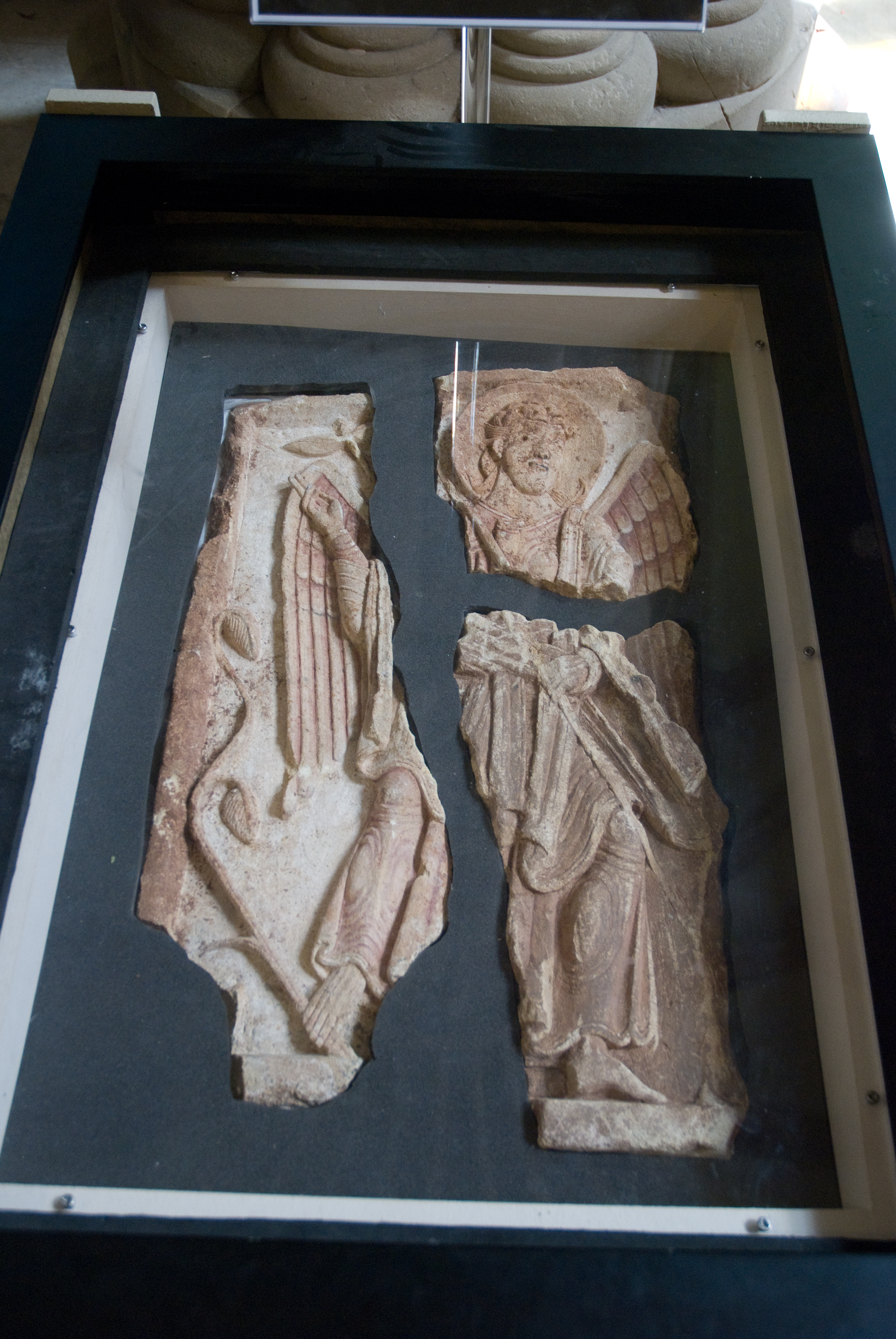 Ancient Christian statue recovered from the grounds